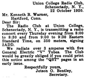 Letter from Jetson O. Bentley, Radio Club at Union College secretary, appearing on page 64 of the December 1920 issue of QST magazine, announcing the introduction of weekly radio concerts over amateur radio station 2ADD.